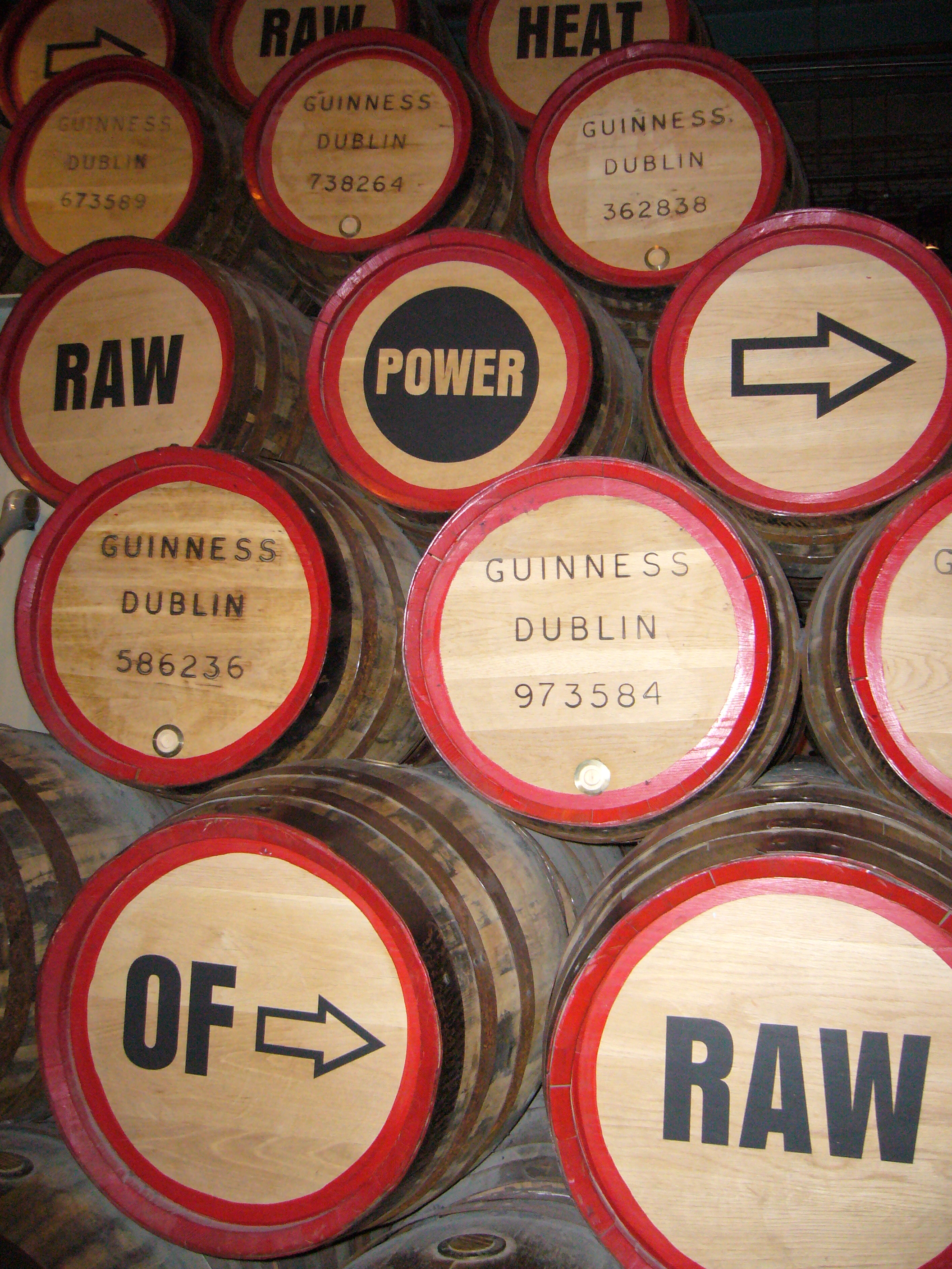 Wooden barrels in Guinness storehouse